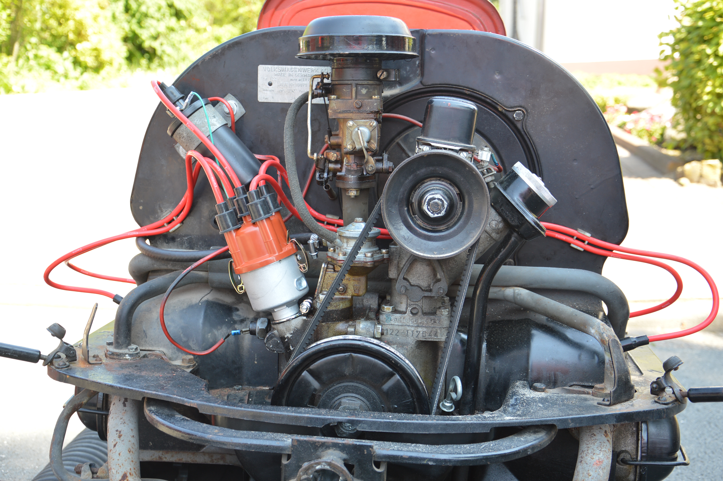 Volkswagen 122 Flat-4-engine, 1192 cm³, engine of a TS 8/8 (Portable water pump) The magnet ignition system was replaced with a battery ignition system due to a broken magnet. For the operation of the TS an external 12-V-Lead-acid-battery must be attached. The TS 8/8 pumps 0,8m³ of water at an operating pressure of 8 bar within one minute.